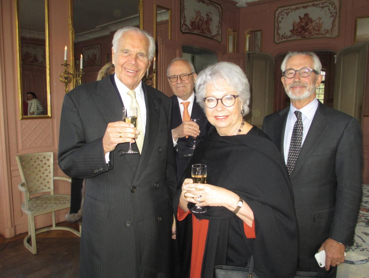 Anders Wall, an unidentified man, Christina Magnuson & Tord Magnuson attending 40th anniversary theater jubileePlace: Confidencen, Ulriksdal, Solna, Sweden